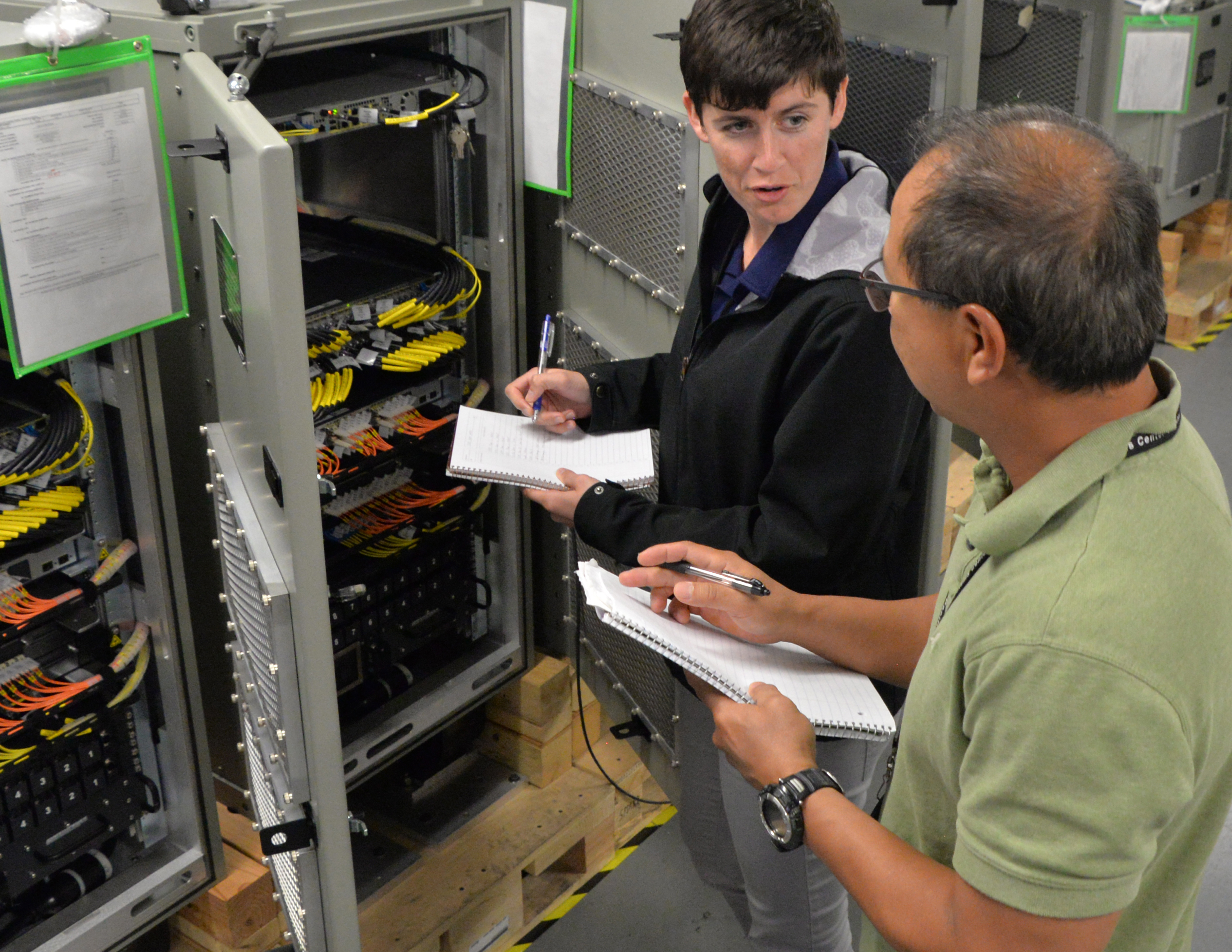 Space and Naval Warfare Systems Center Pacific (SPAWAR) Pre-Installation Test and Check Out (PITCO) technicians Diana Burnside and Arnel Franswells perform acceptance testing on Consolidated Afloat Ships Network Enterprise Services (CANES) racks in SPAWAR’s Network Integration and Engineering Facility.